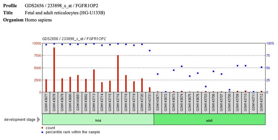 FGFR1OP2 expression differs among fetal and adult reticulocytes.